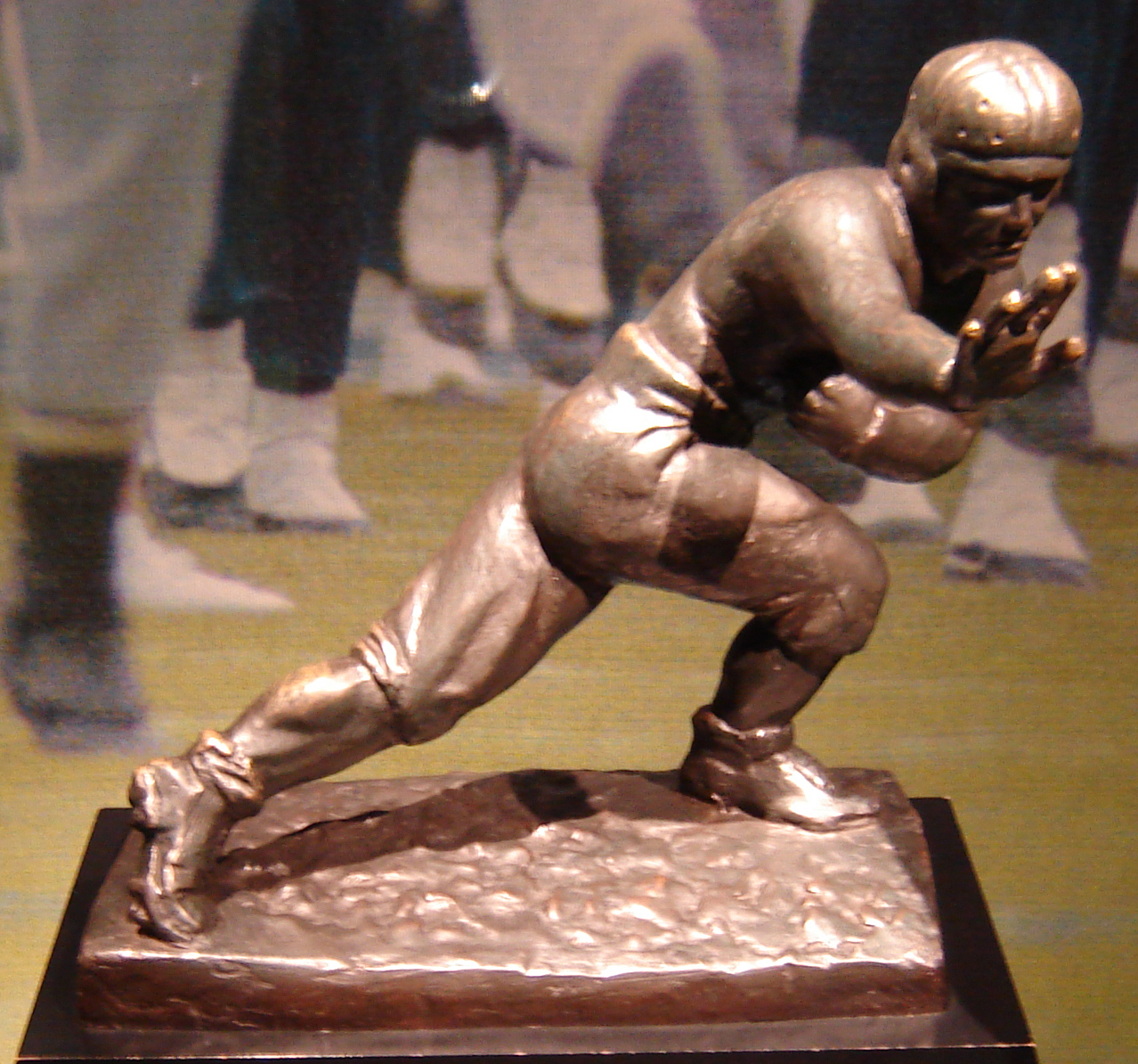 John Cappelletti's 1973 Heisman Trophy is part of an exhibit at the Penn State All-Sports Museum located at Beaver Stadium, on the campus of the Pennsylvania State University.